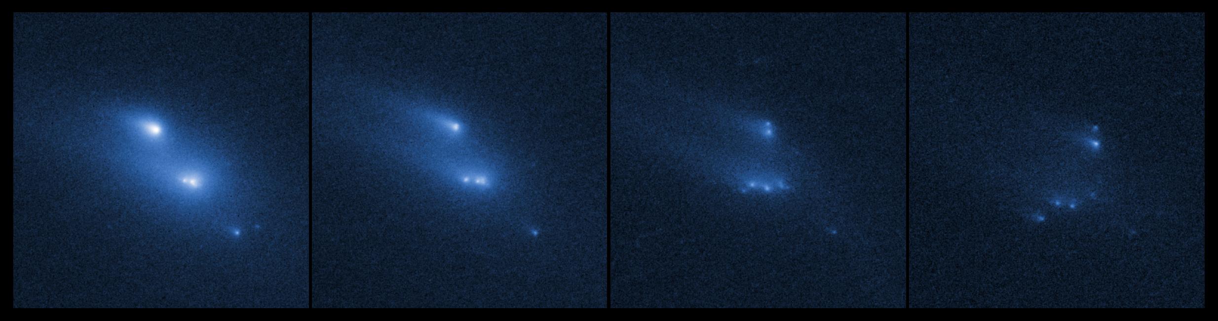 This series of images shows the asteroid P/2013 R3 breaking apart, as viewed by the NASA/ESA Hubble Space Telescope in 2013. This is the first time that such a body has been seen to undergo this kind of break-up. The Hubble observations showed that there are ten distinct objects, each with comet-like dust tails, embedded within the asteroid's dusty envelope. The four largest rocky fragments are up to 200 metres in radius, about twice the length of a football pitch. The date increases from left to right, with frames from 29 October 2013, 15 November 2013, 13 December 2013, and 14 January 2014 respectively, showing how the clumps of debris material move around. The 14 January 2014 frame was not included in the science paper and is additional data.